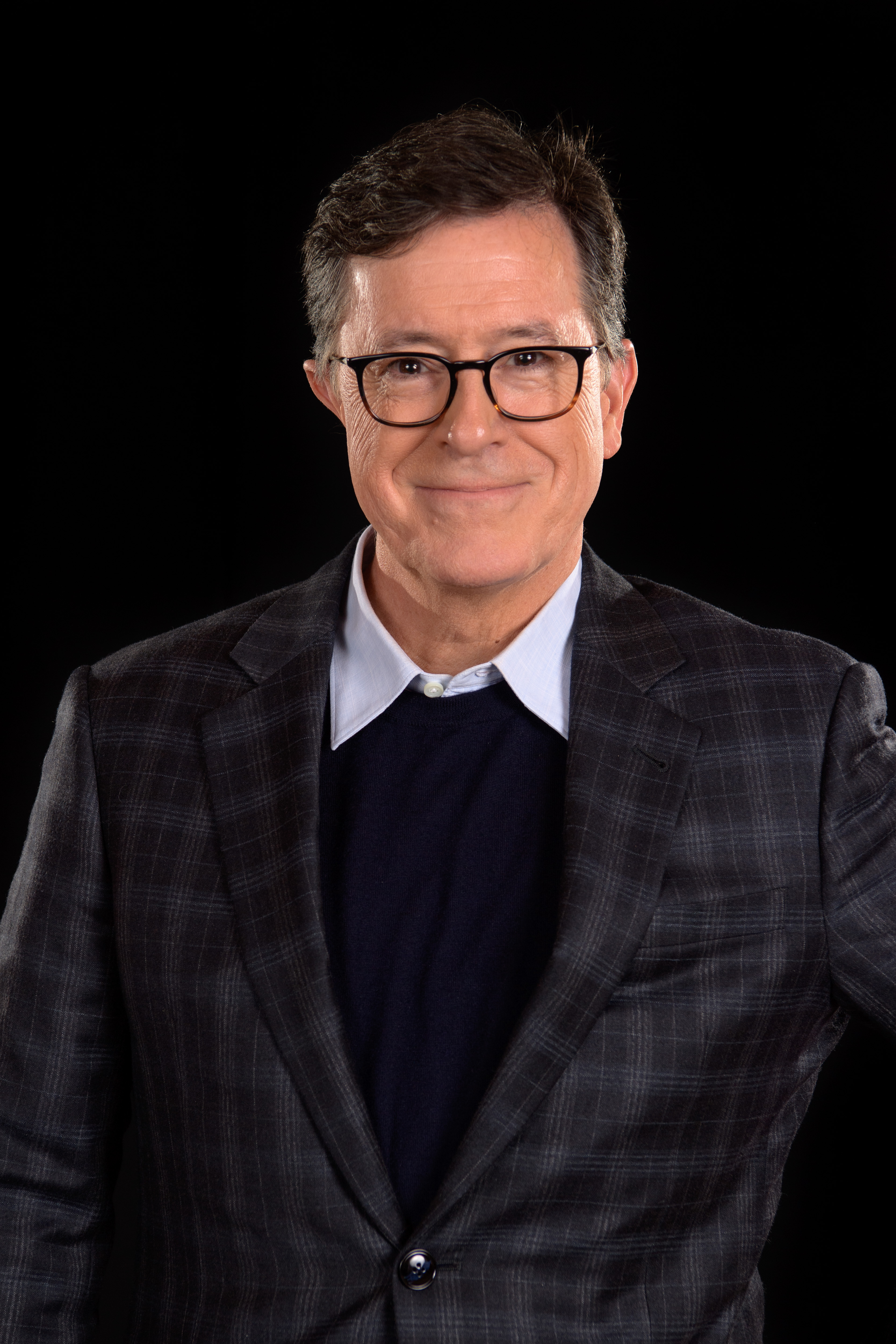 NJPAC 12.7.19 Colbert and Louis-Dreyfuss